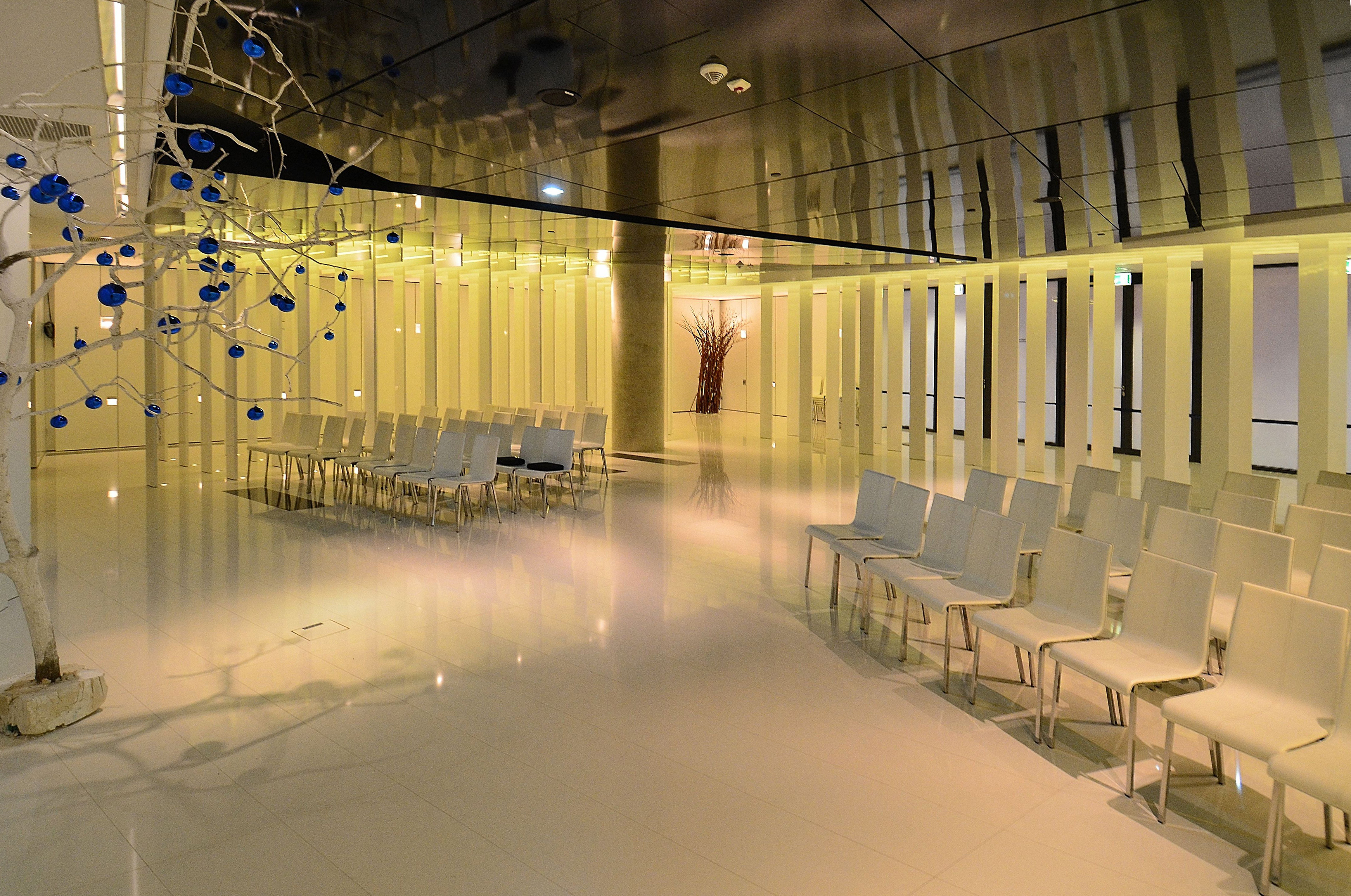 Multifaith chapel at the National Stadium in Warsaw